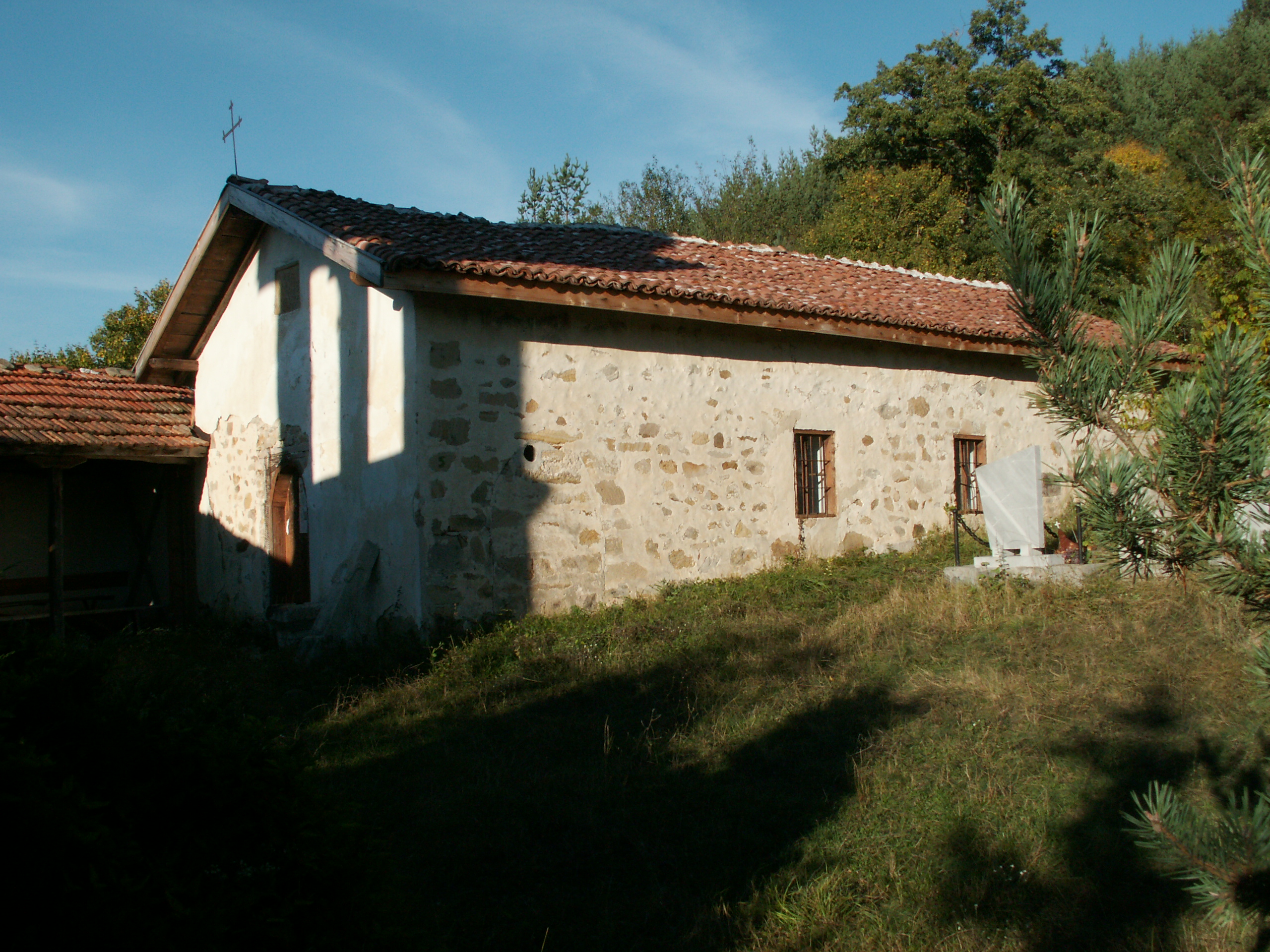 Church in Yarlovtsi, Bulgaria.